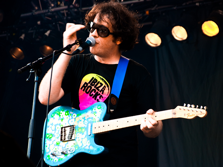 The Wombats performing at the Slottsfjell festival 2009 (Matthew Murphy pictured)